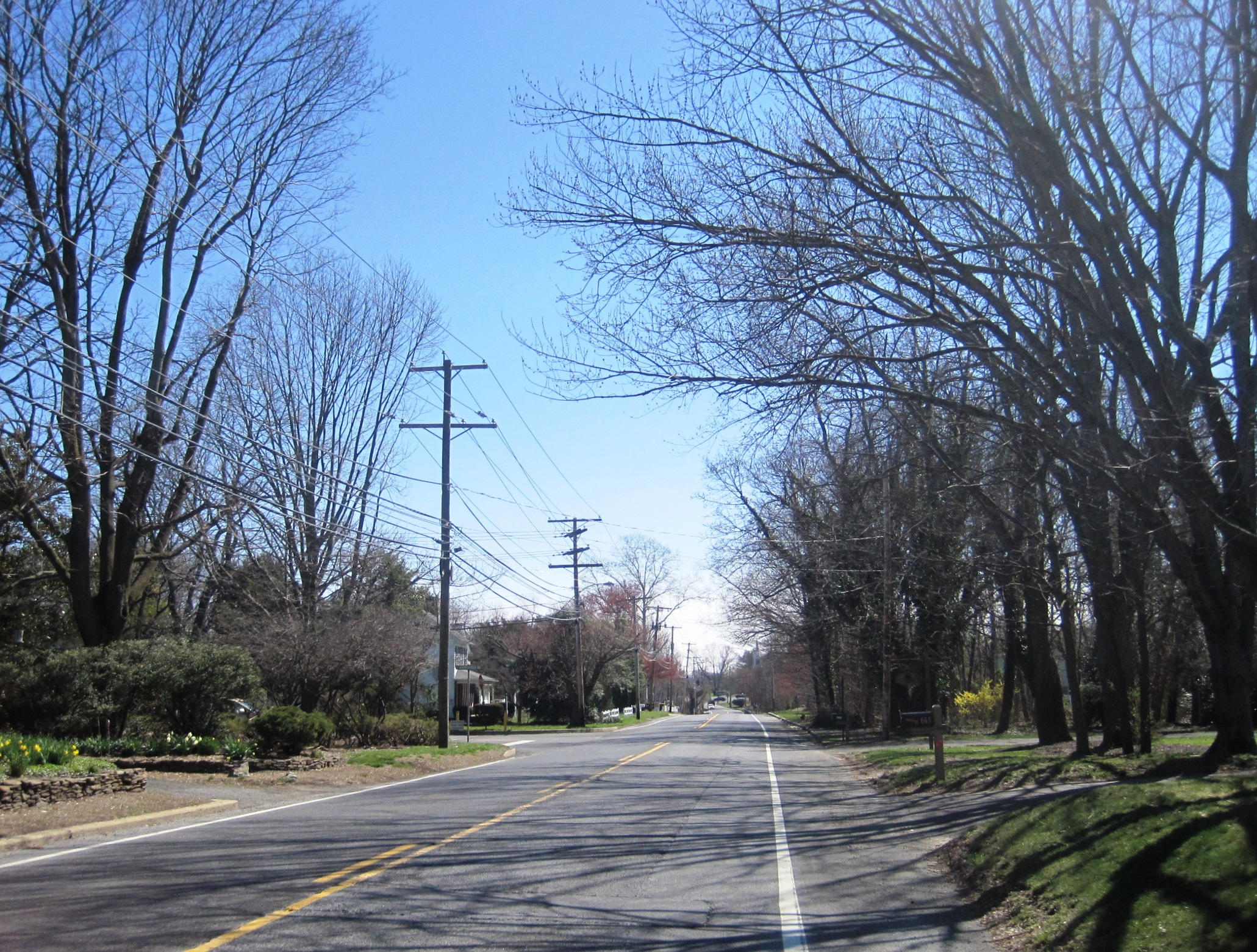 Photo of Ardena, New Jersey, an unincorporated community within Howell Township. Photo taken looking east along eastbound County Route 524 at Vanderveer Road.